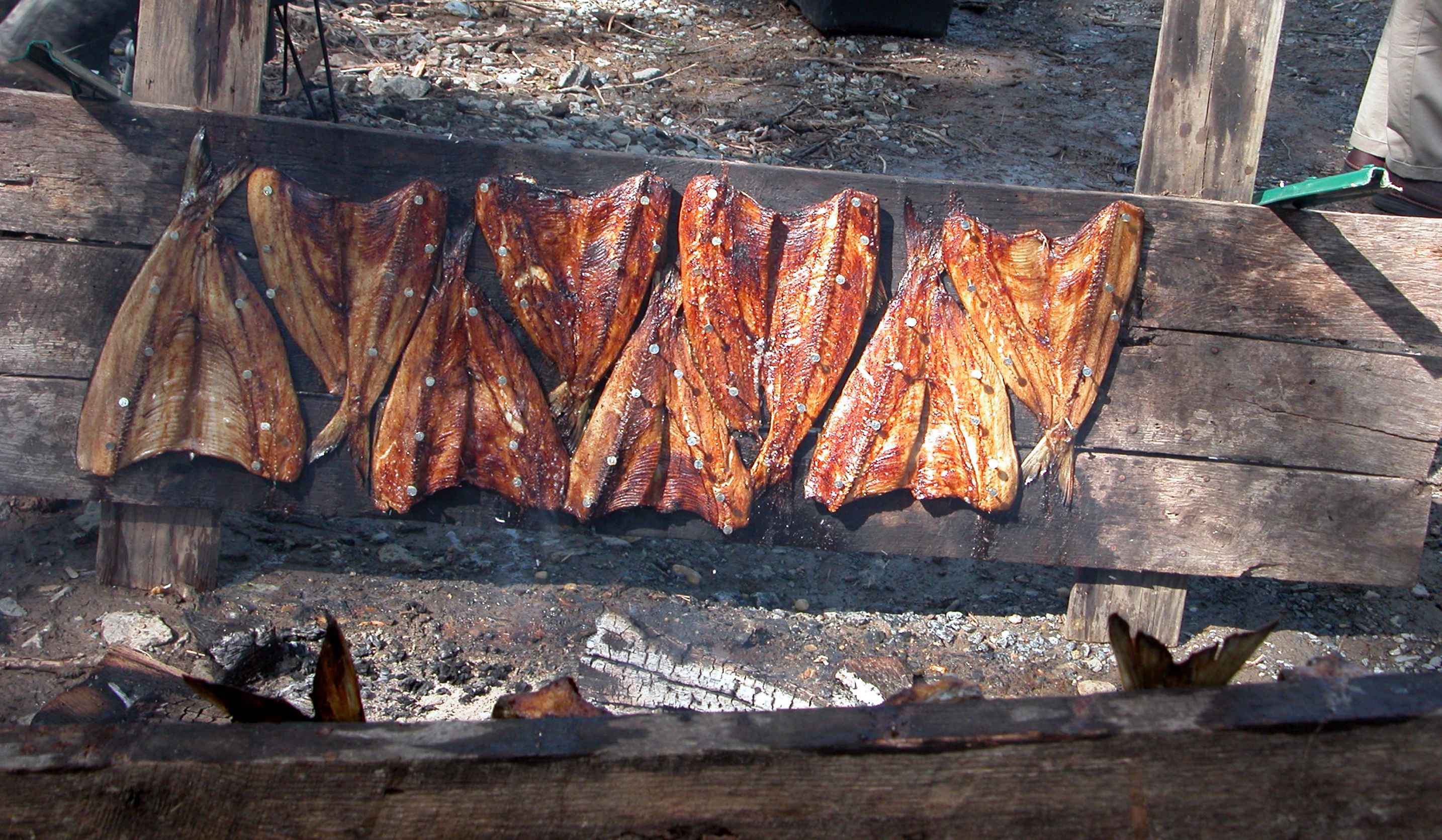 Image title: Preparing smoked shad fish alosa sapidissima Image from Public domain images website